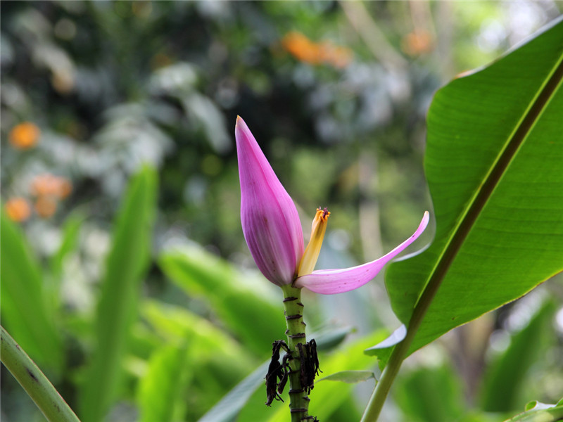 I am a tropical evergreen perennial with a slender cauloid, 1-3 meters long. I grow oblong leaves with a length up to 2 meters and width 35 meters, which can serve as the leaf material in flower arrangement.